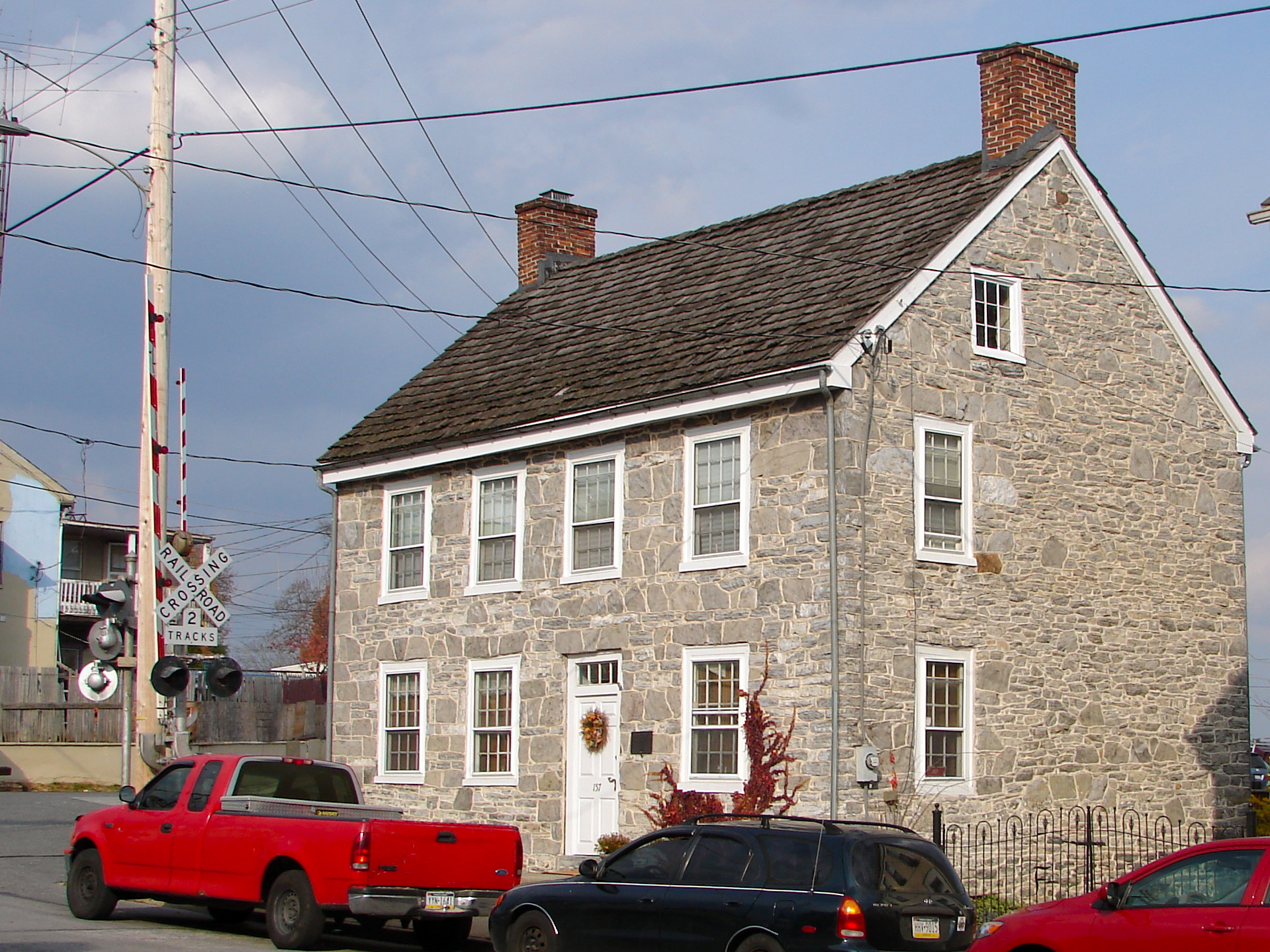 Forry House on the NRHP since December 27, 1977. At 149 North Newberry Street, York, York County, Pennsylvania. Built 1809.